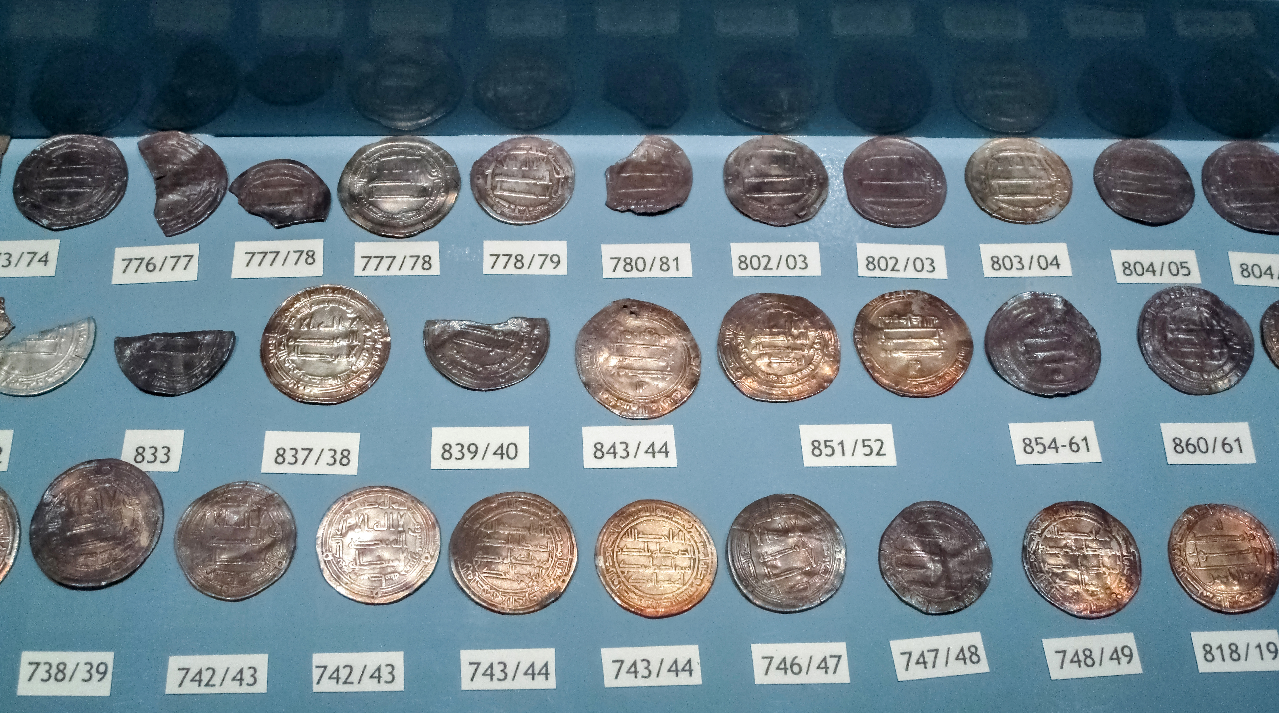 Iraq silver coins from the Spillings Hoard at Gotland Museum